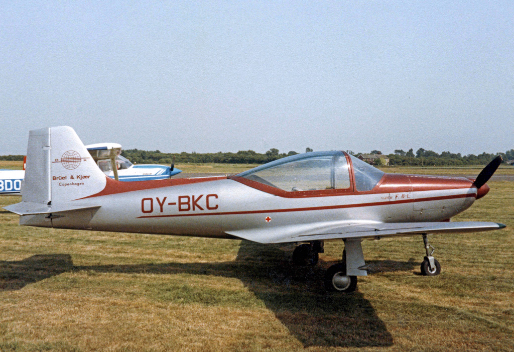 Laverda F.8L Falco IV OY-BKC at the 1984 PFA Rally at Cranfield, Bedfordshire, UK.